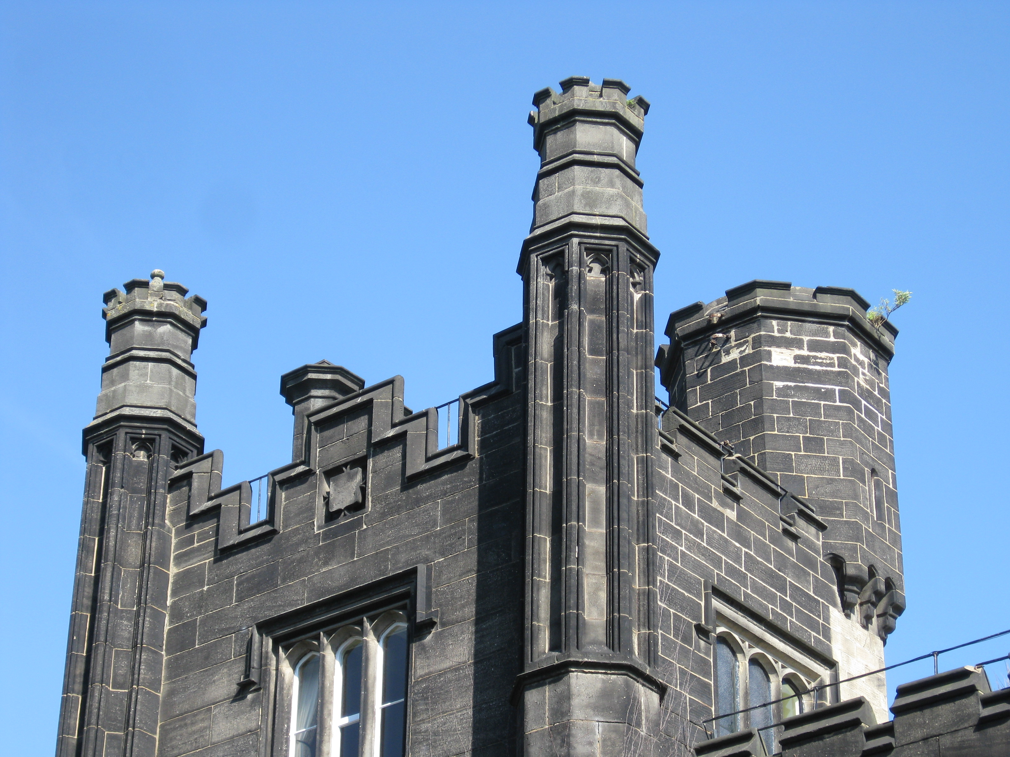 Headingley castle. Detail of top of tower showing octagonal buttress ending in small turrets. Battlements. Larger octagonal turret at the rear right.